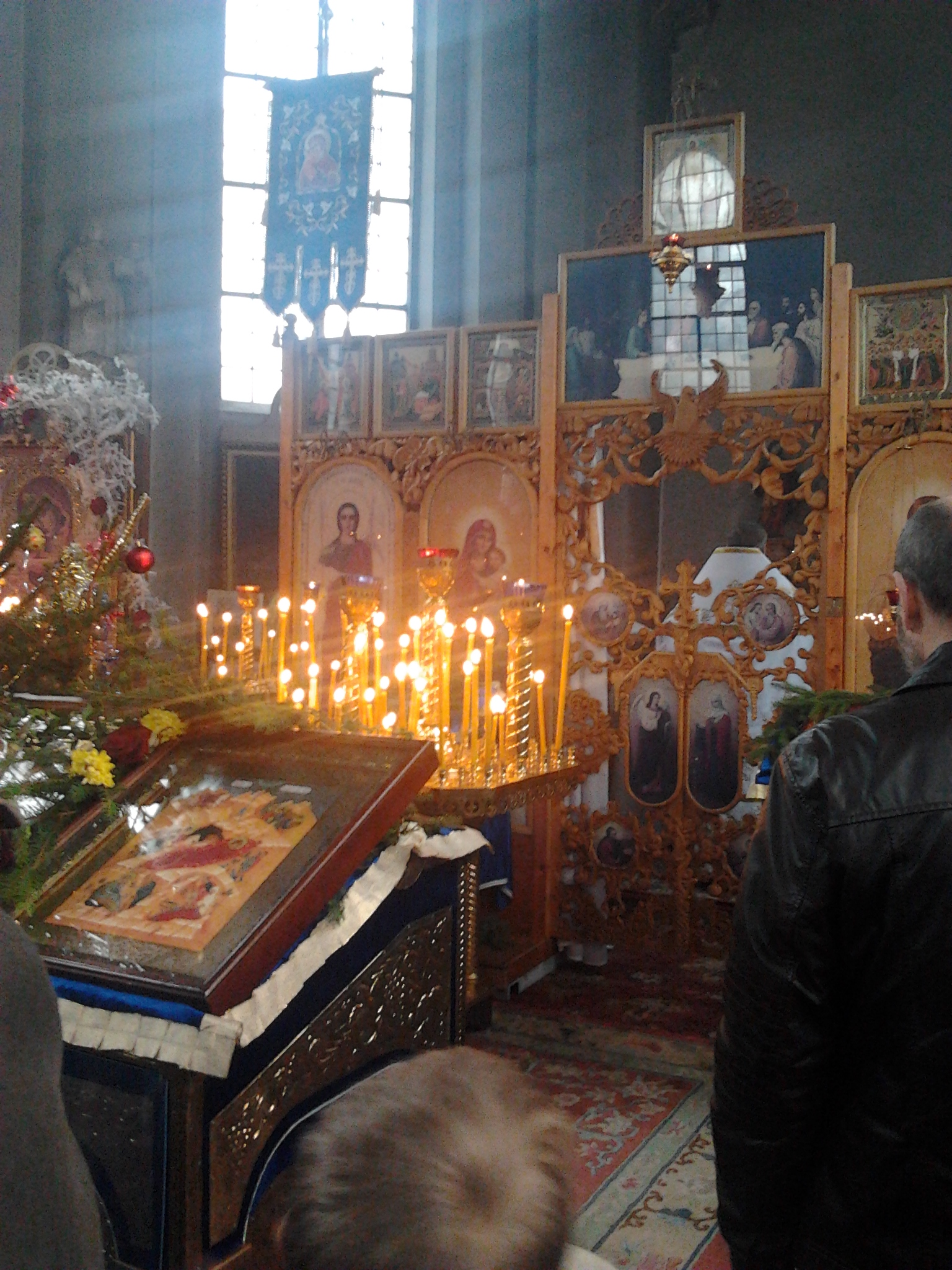 Russian Orthodox Christmas Service in the Alexius Chapel / Paderborn, Germany